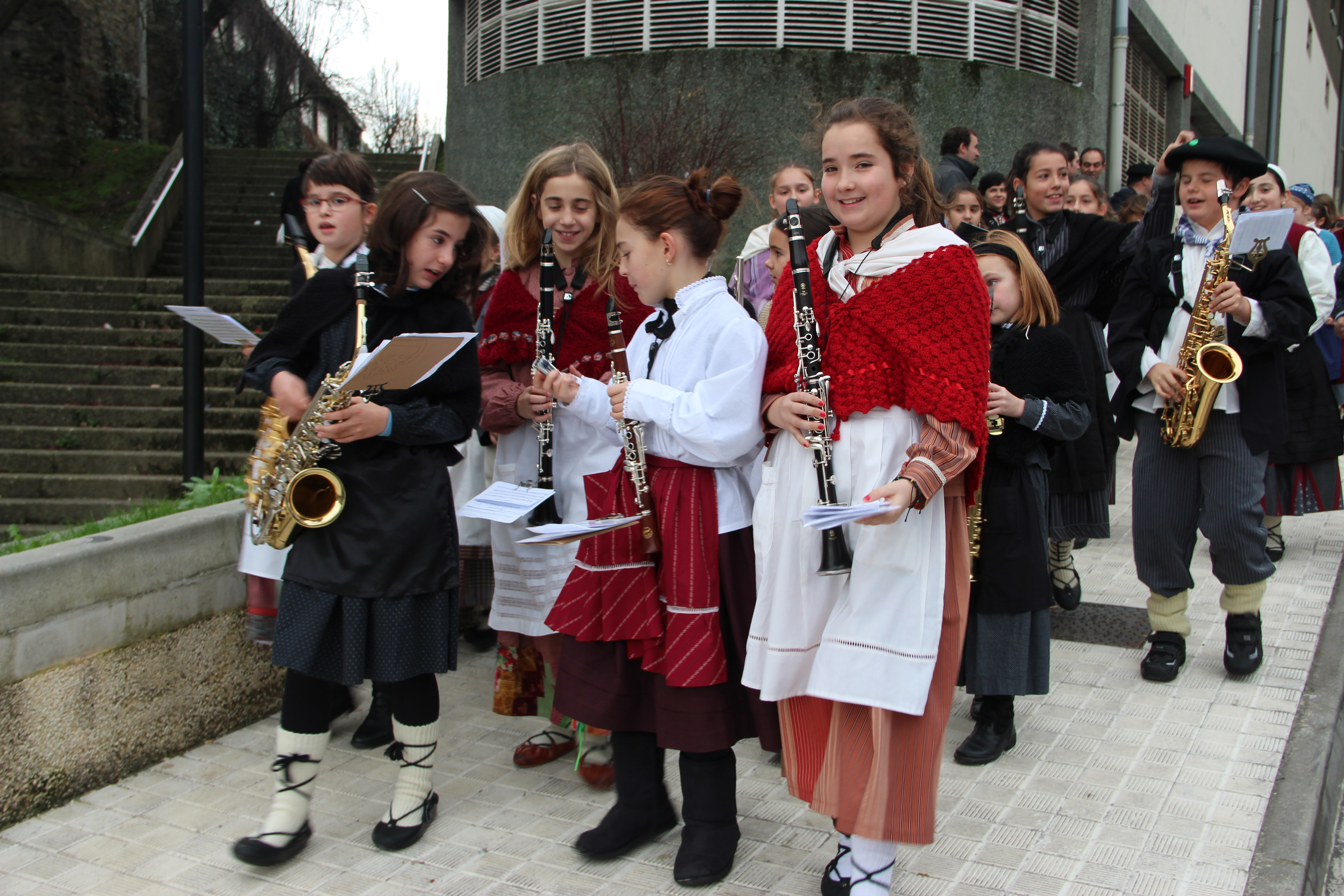 Olentzero in Ordizia